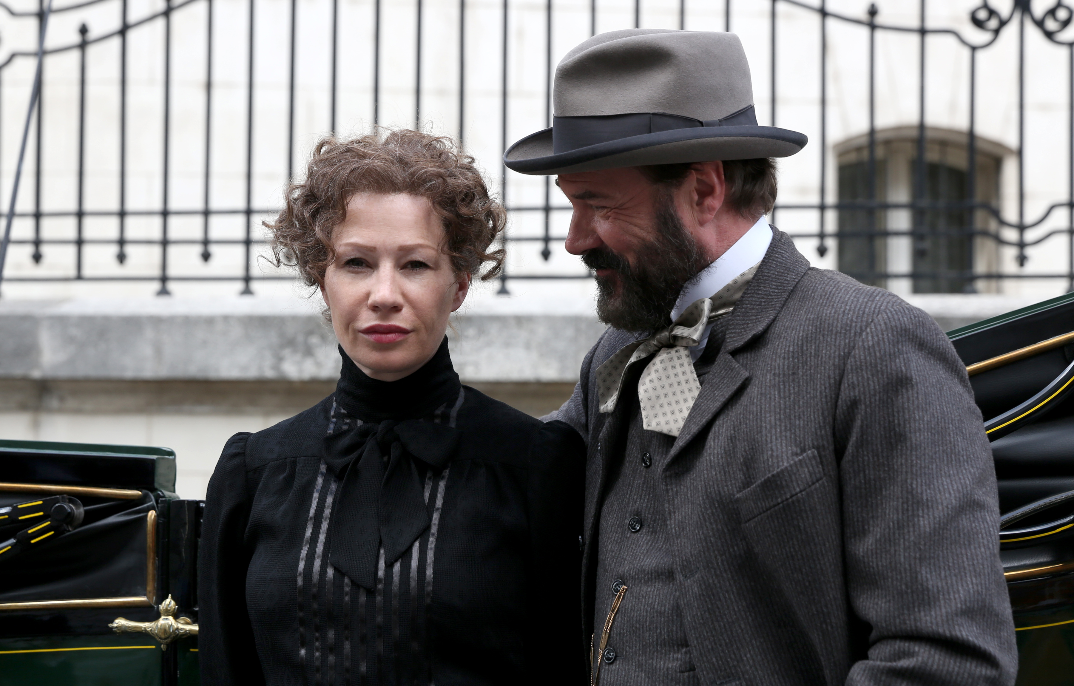 Birgit Minichmayr as Bertha von Suttner and Sebastian Koch as Alfred Nobel on the filming location of the movie Madame Nobel in and around the Embassy of France in Vienna (Vienna, Austria).